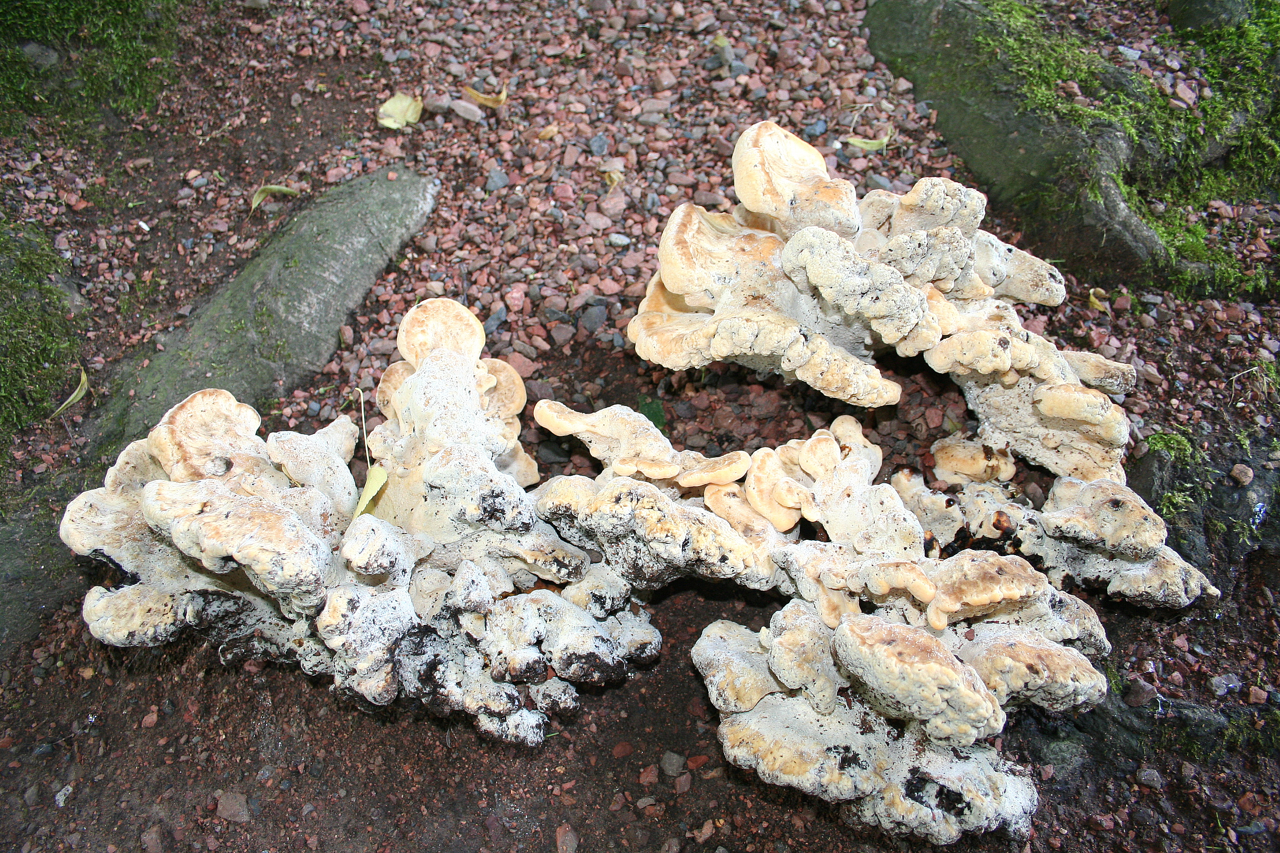 Giant polypore, Morlanwelz-Mariemont, Belgium